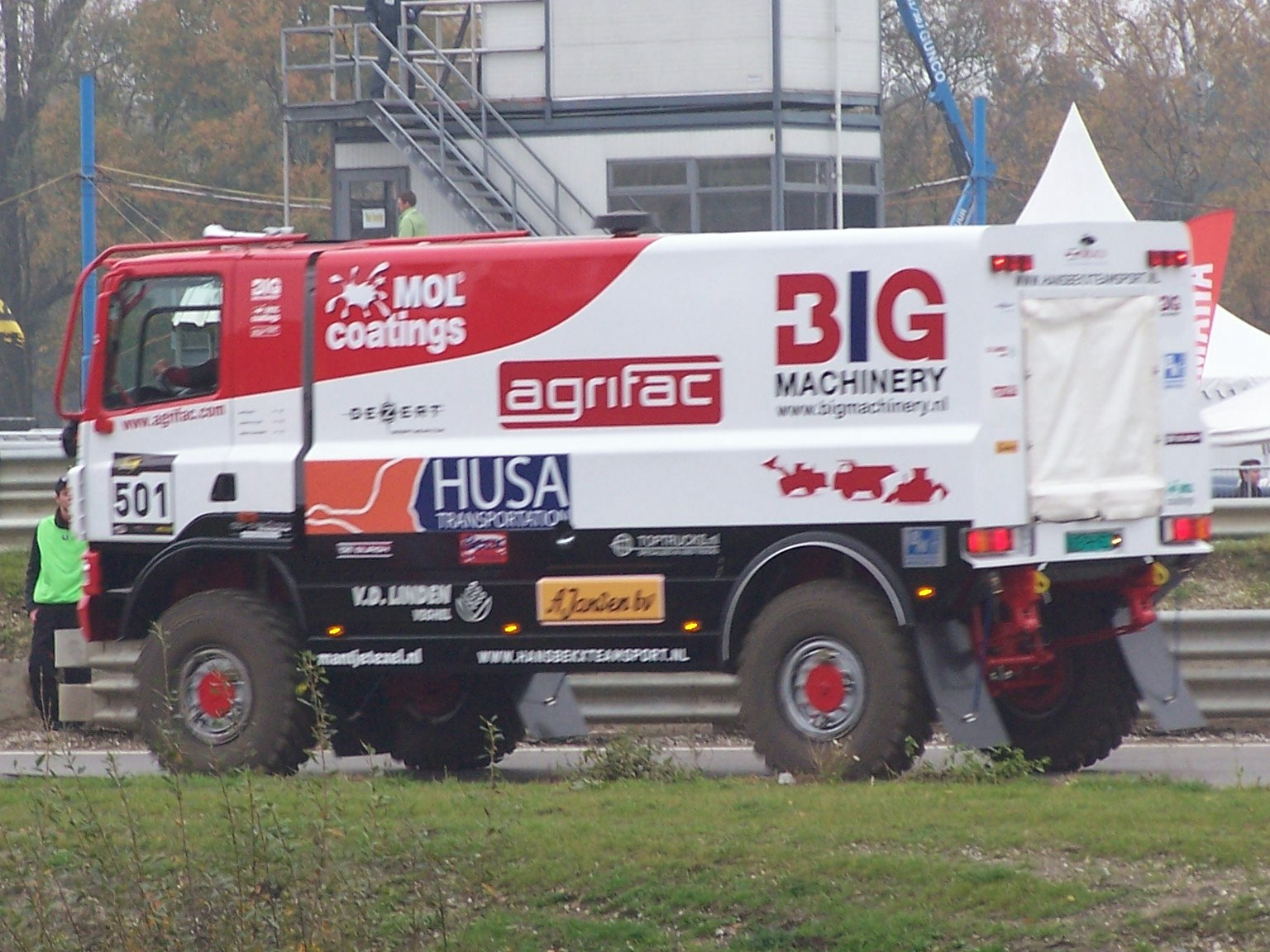 DAF 75 CF 4x4 racing truck, driven by Hans Bekx from the Netherlands